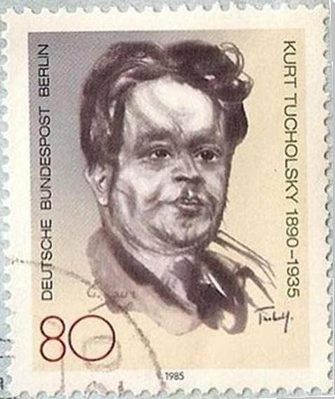 Kurt Tucholsky, stamp of West Berlin, 1985, 80 pfennigs.